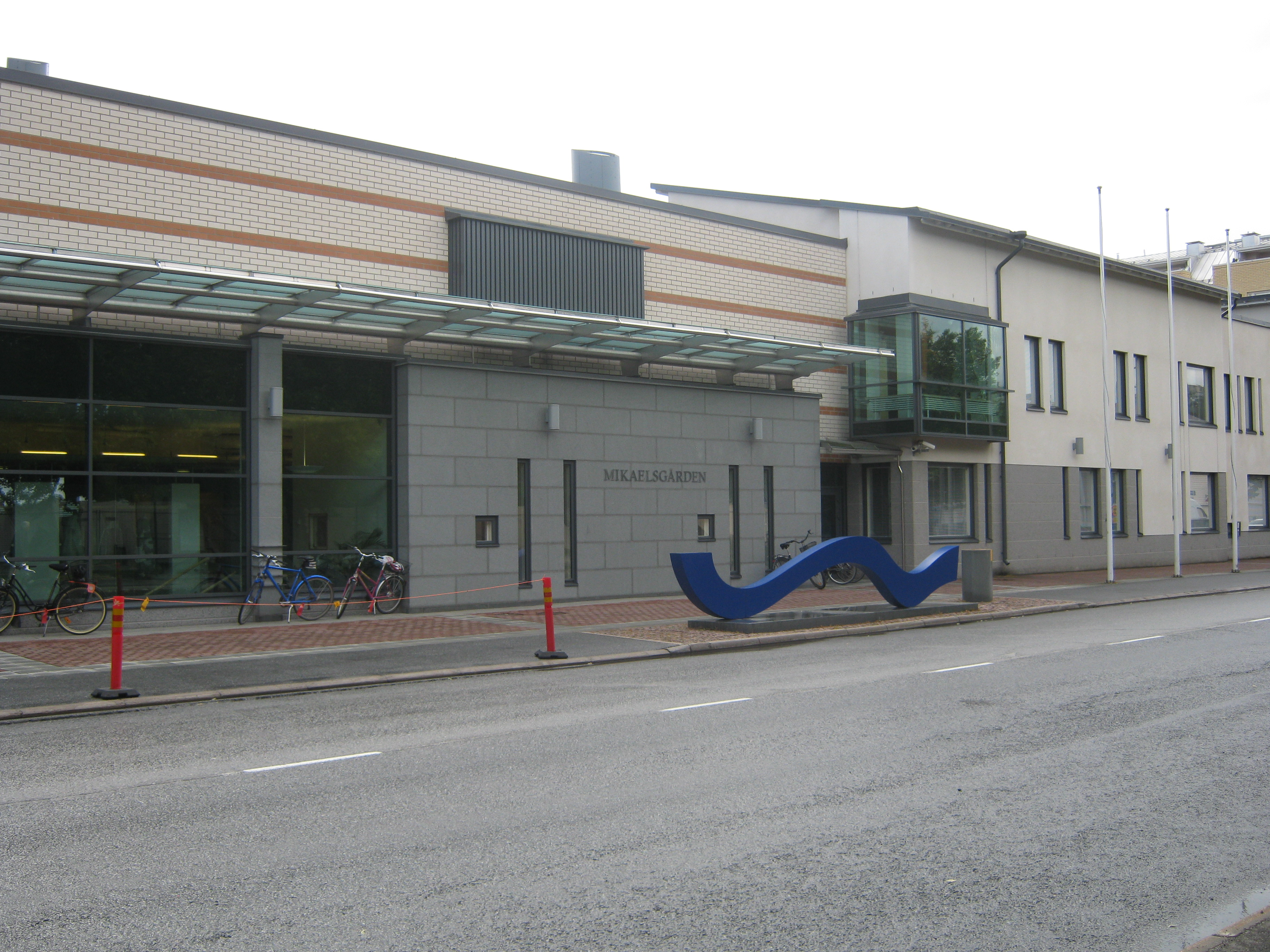 Swedish culture center Mikaelsgården in Pori, Finland. The sculpture Vanavesi - Kölvattnet by Pertti Mäkinen 2004.